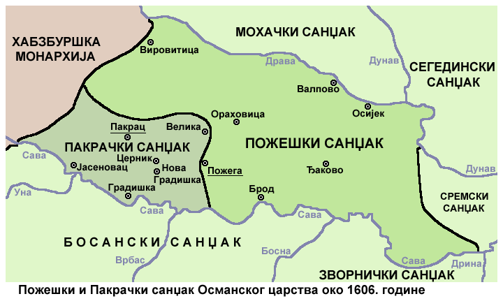 Ottoman sanjaks of Pojega (Požega) and Pakraç (Pakrac), around 1606.